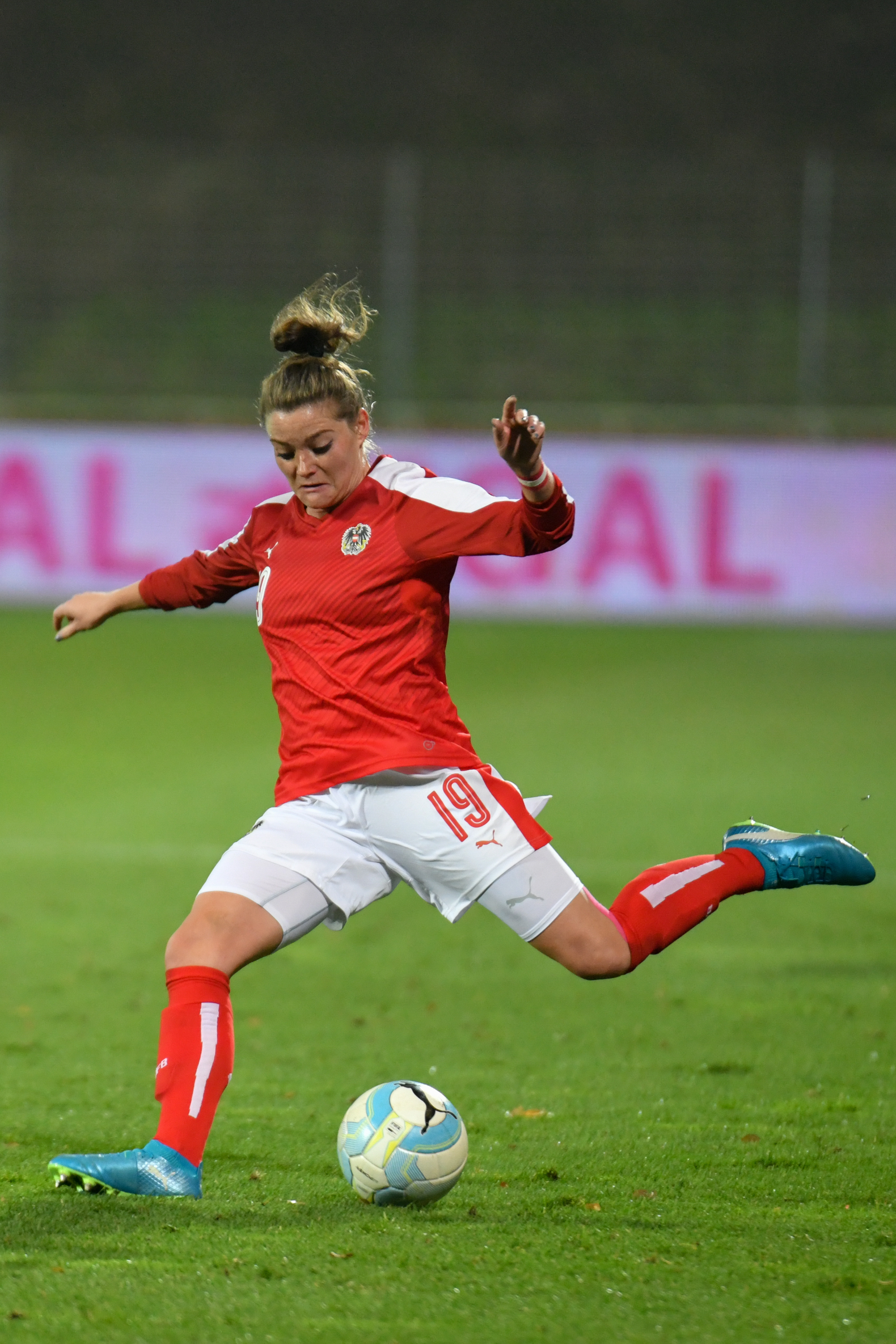 FIFA Women's World Cup 2019 Qualifying Round Austria vs. Israel November 23, 2017 BSFZ-Arena Maria Enzersdorf. Picture shows